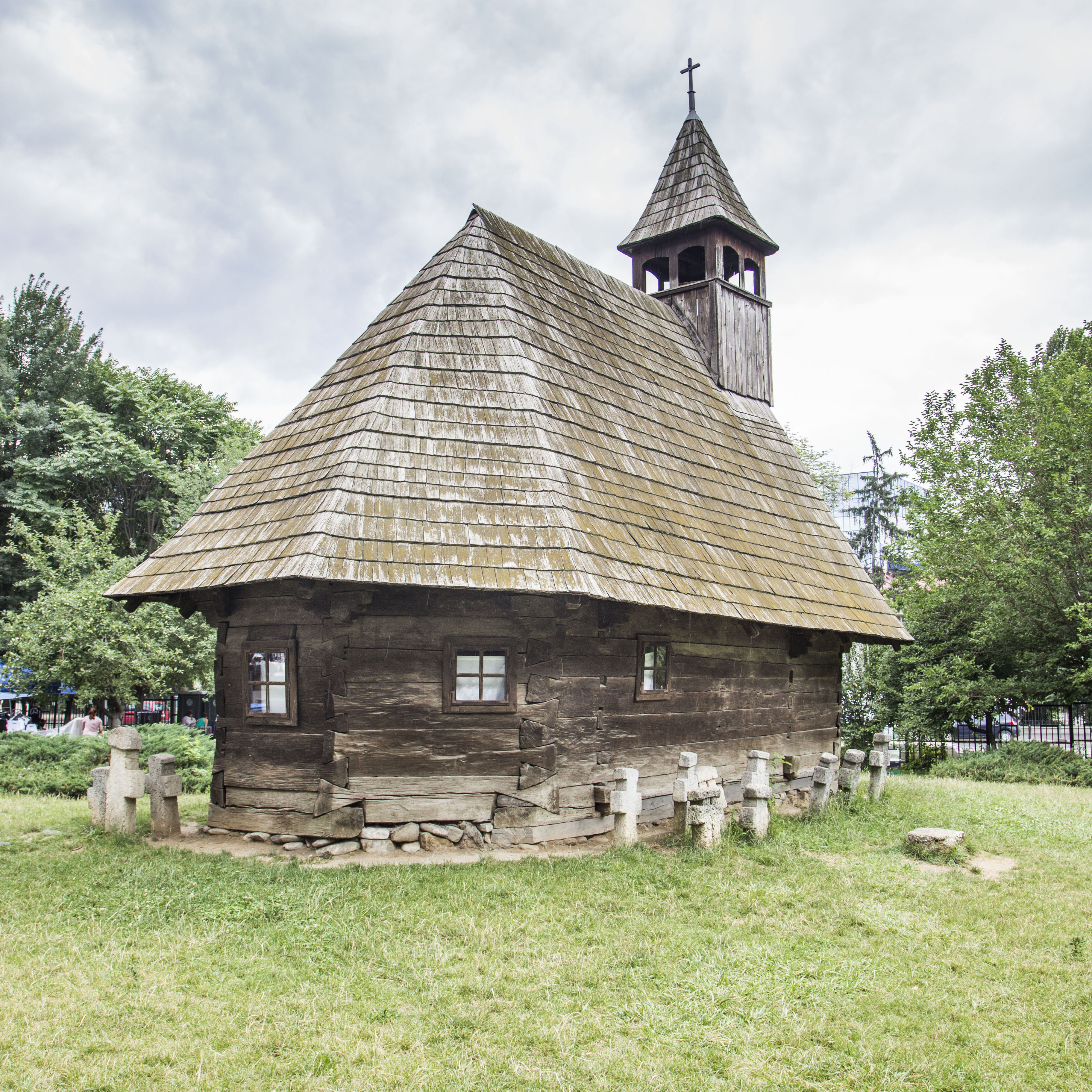 Wooden church in Bejan, Hunedoara county, transfered in Bucharest in 1992.